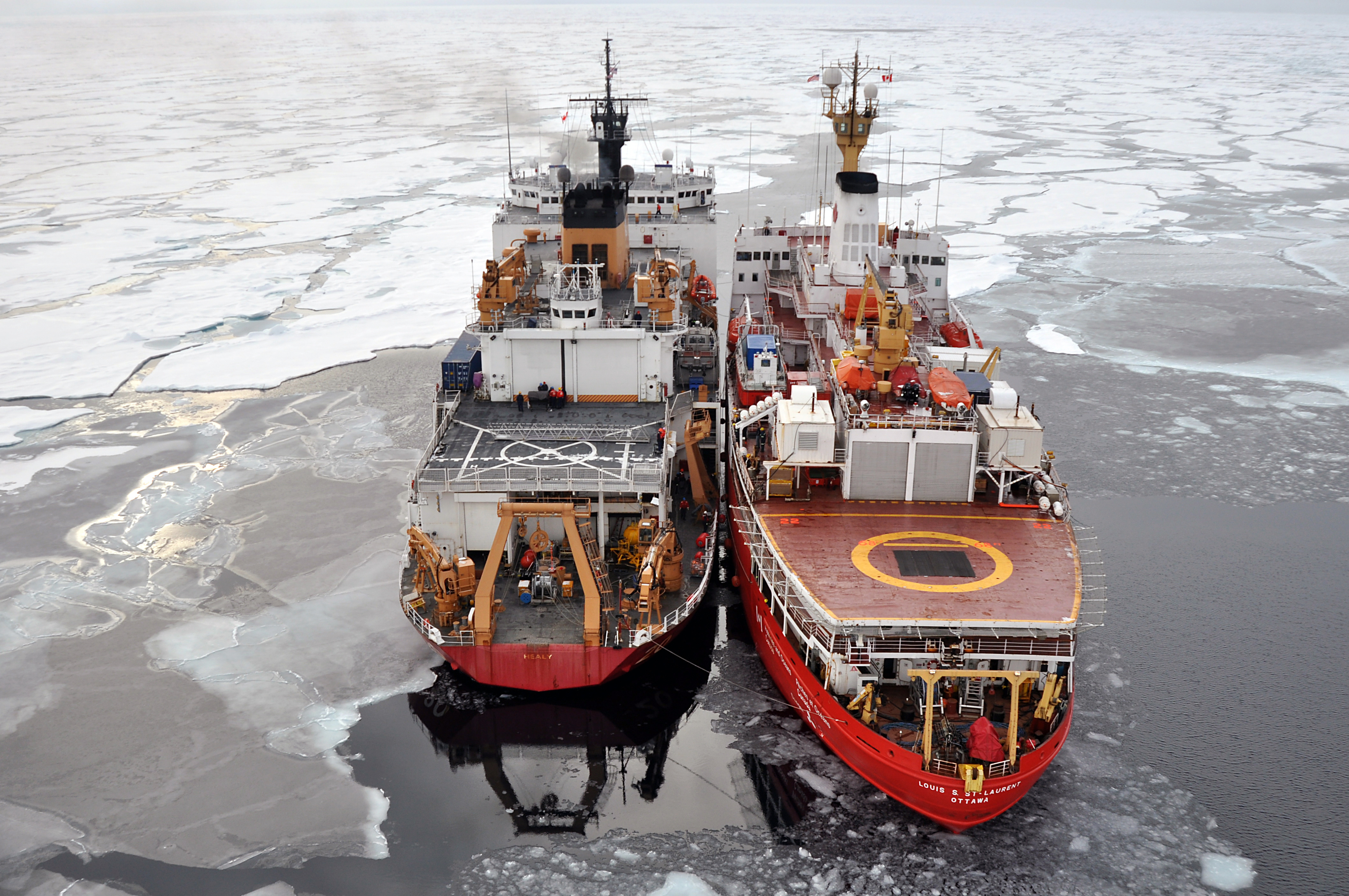 ARCTIC OCEAN – The Canadian Coast Guard Ship Louis S. St-Laurent ties up to the Coast Guard Cutter Healy in the Arctic Ocean Sept. 5, 2009. The two ships are taking part in a multi-year, multi-agency Arctic survey that will help define the Arctic continental shelf. Photo Credit: Patrick Kelley, U.S. Coast Guard